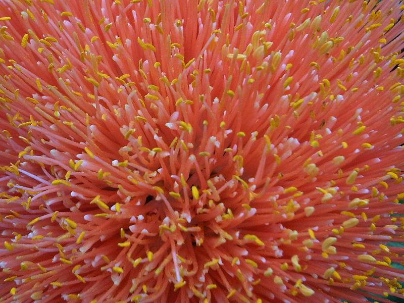 Scadoxus puniceus in Kew Gardens, London, England. Closeup